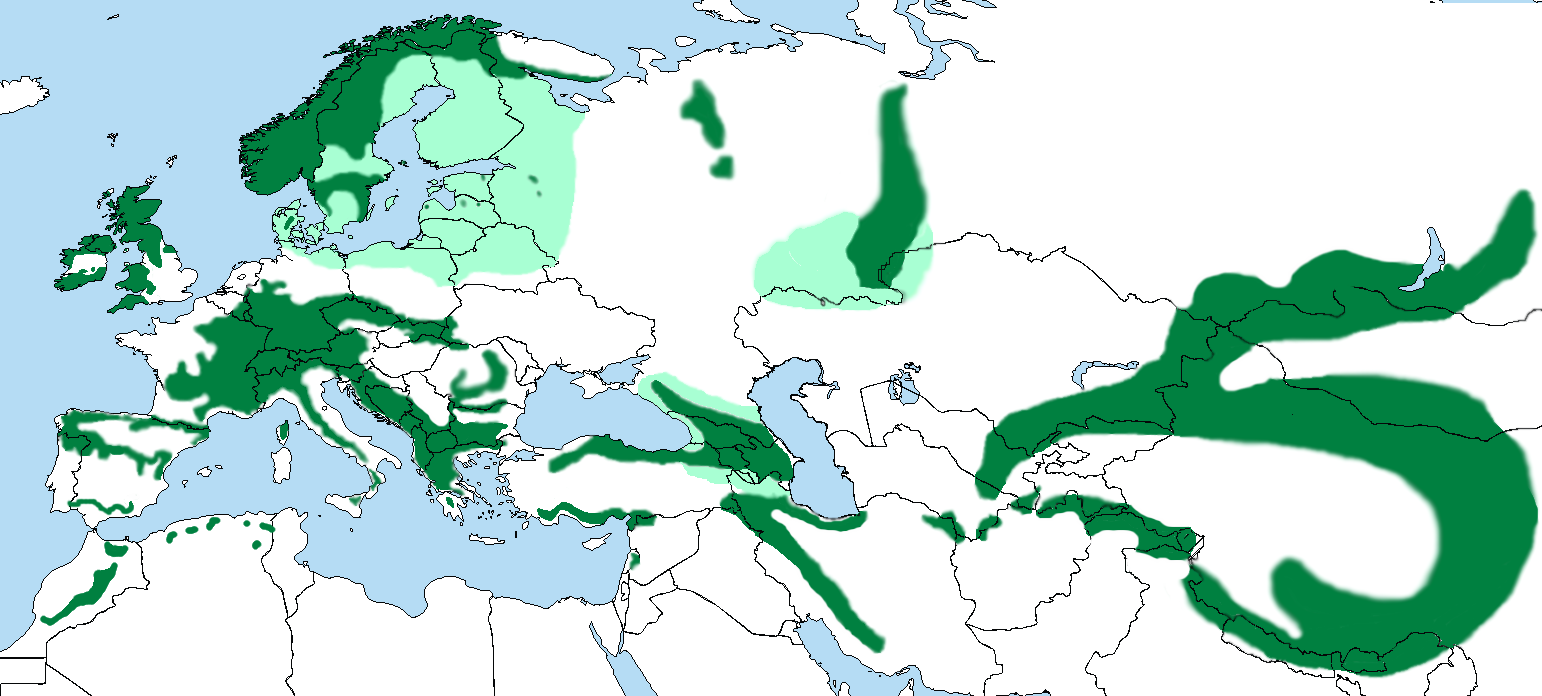 Cinclus cinclus Range Map